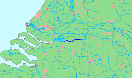 Location of a waterway (river/canal) in the Netherlends